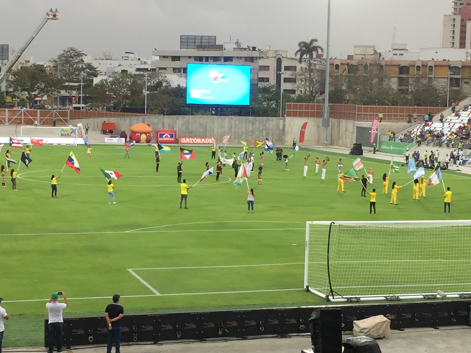 Inauguration Romelio Martinez